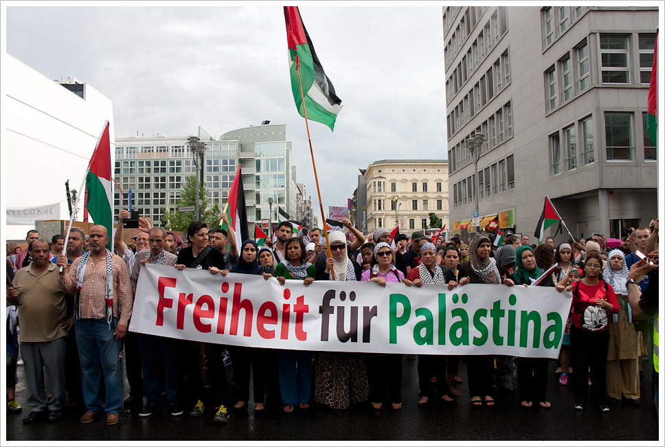 Protest in Berlin